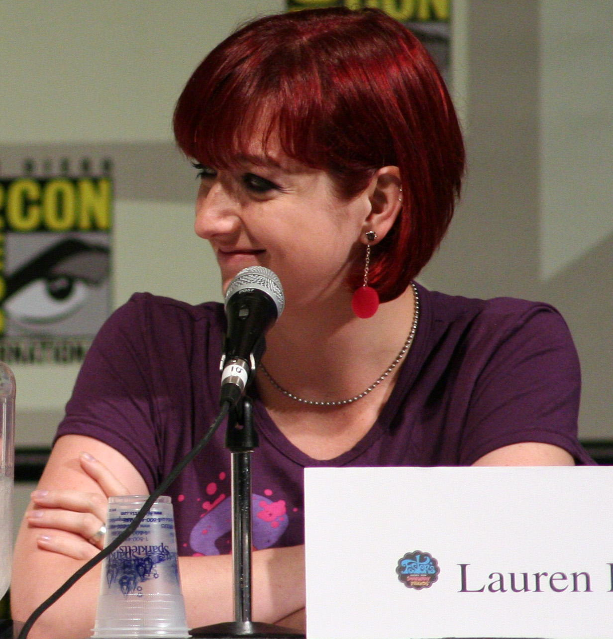 Cartoonist Lauren Faust at Comic Con 2008.